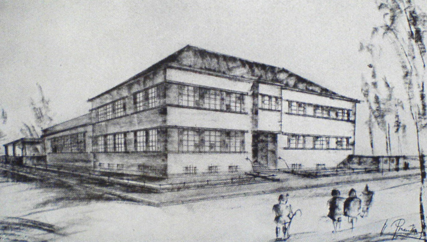 Kindergarten, Innsbruck, Austria